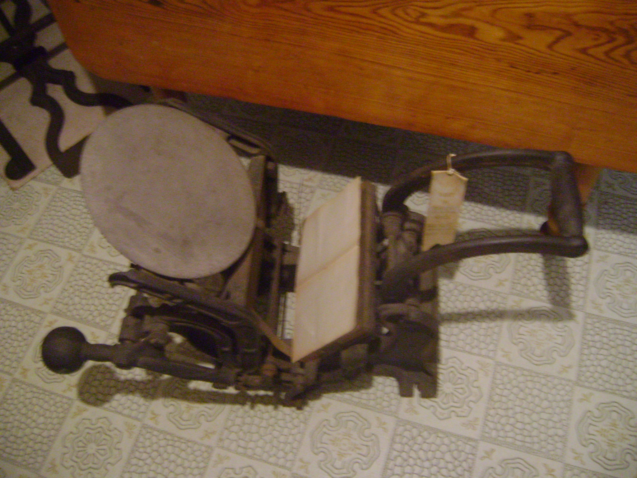 Swift Lathers' foot operated press used for publishing The Mears Newz